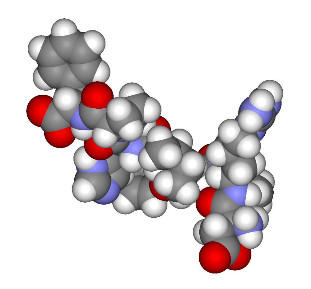 Space-filling model of angiotensin II. Created using Accelrys DS Visualizer Pro 1.6 and GIMP.